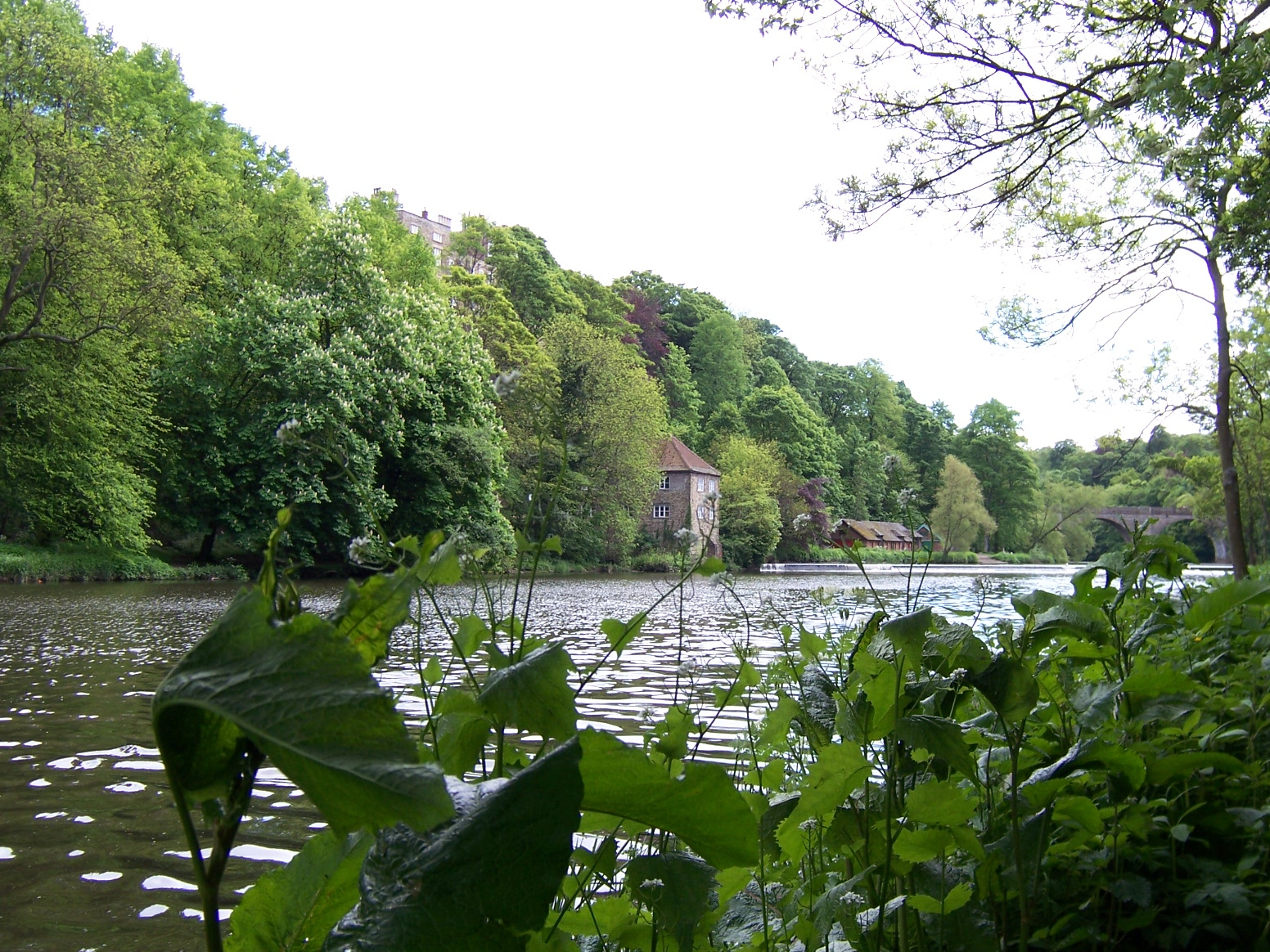 River Wear in Durham, England own work; photo taken on 28 May 2006